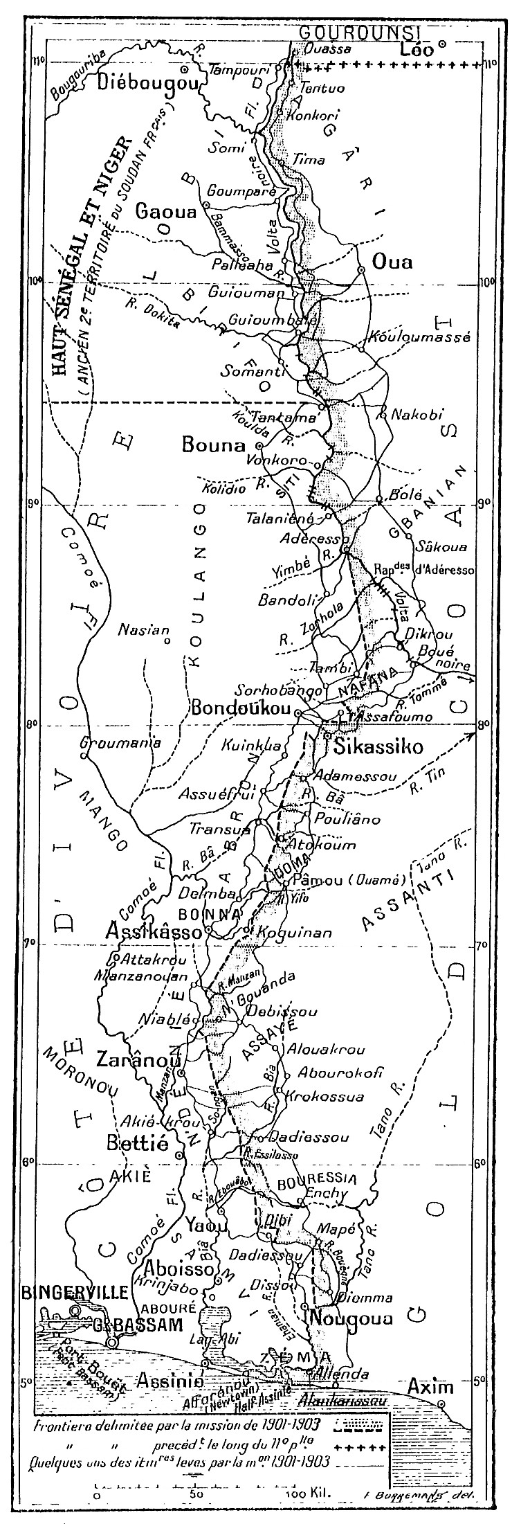 Course of the western boundary of the British Gold Coast Colony to the French territories of Côte d'Ivoire (Ivory Coast) and Haut-Sénégal et Niger under the agreement a Frankobritish Boundary Commission, which toured local areas 1901-1903